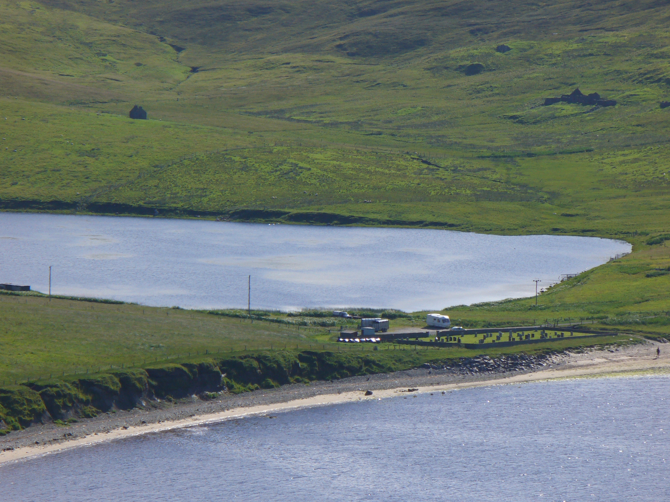 Ayre at Head of Sand Voe